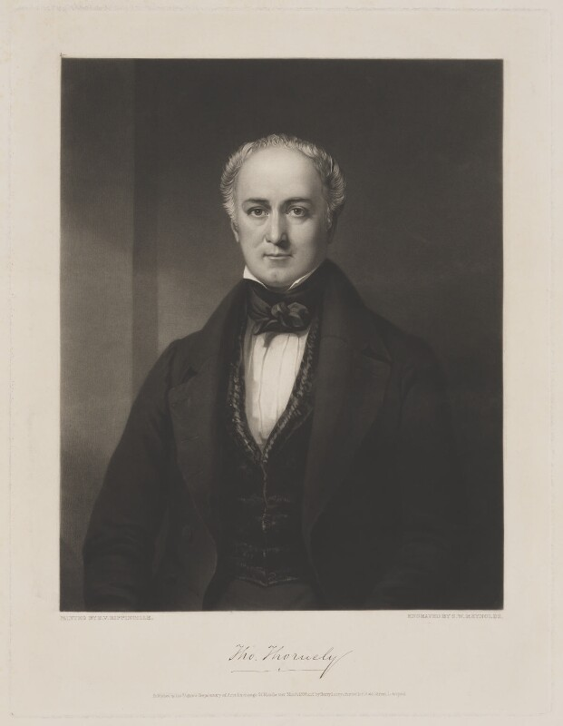 Thomas Thornely" by Samuel Williams Reynolds, published in March 1838 and given to the National Portrait Gallery, London in 1932.